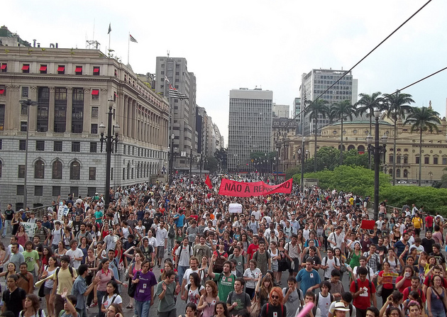 Protesto de estudantes da USP no centro de São Paulo.